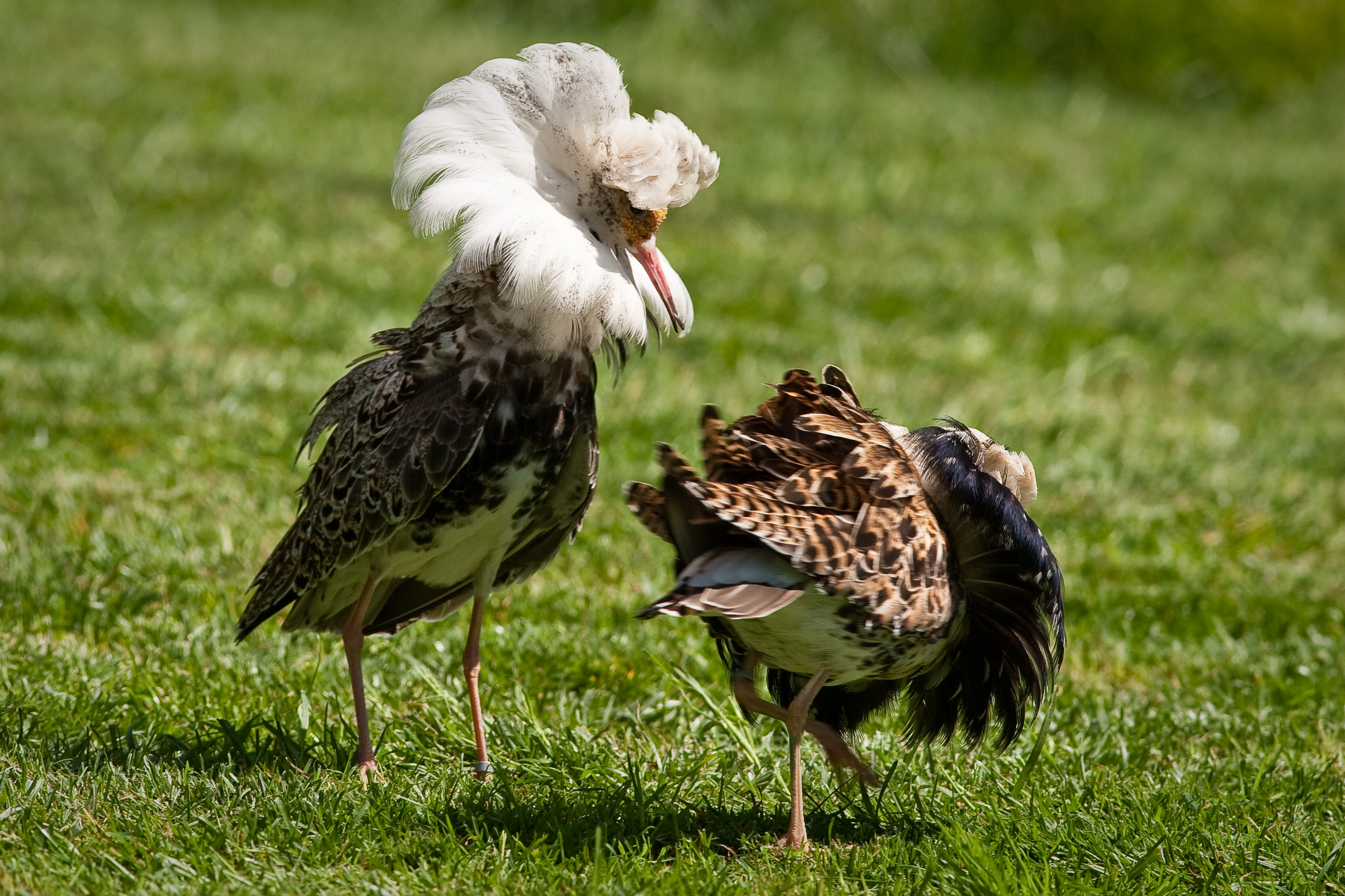 Two male Ruff at Diergaarde Blijdorp, Netherlands.